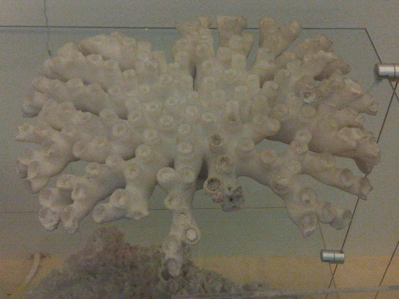 Duncanopsammia axifuga at the Natural History Museum in London, England.